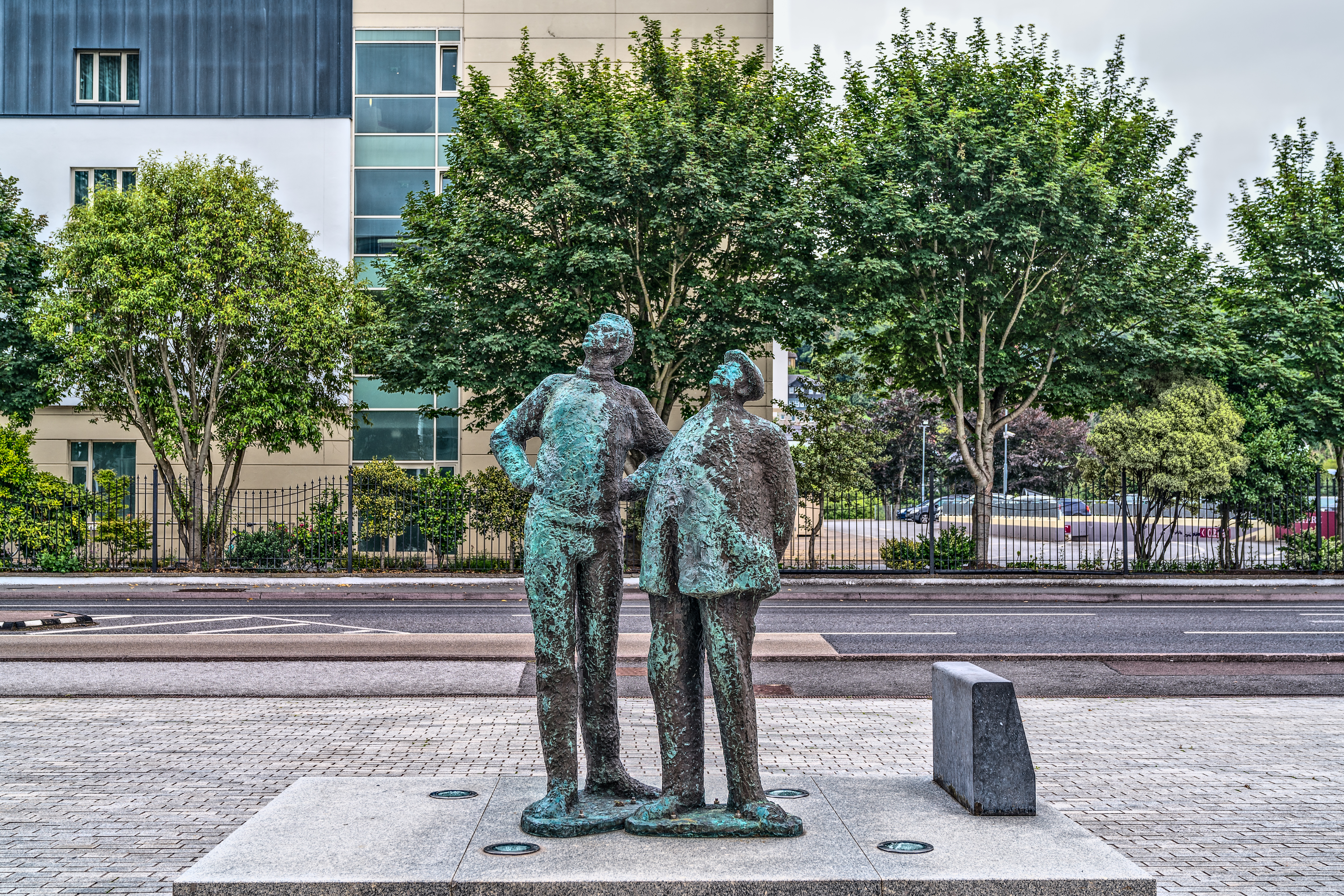 I like this for many reasons but the main thing is that it captures a time in history that will never return